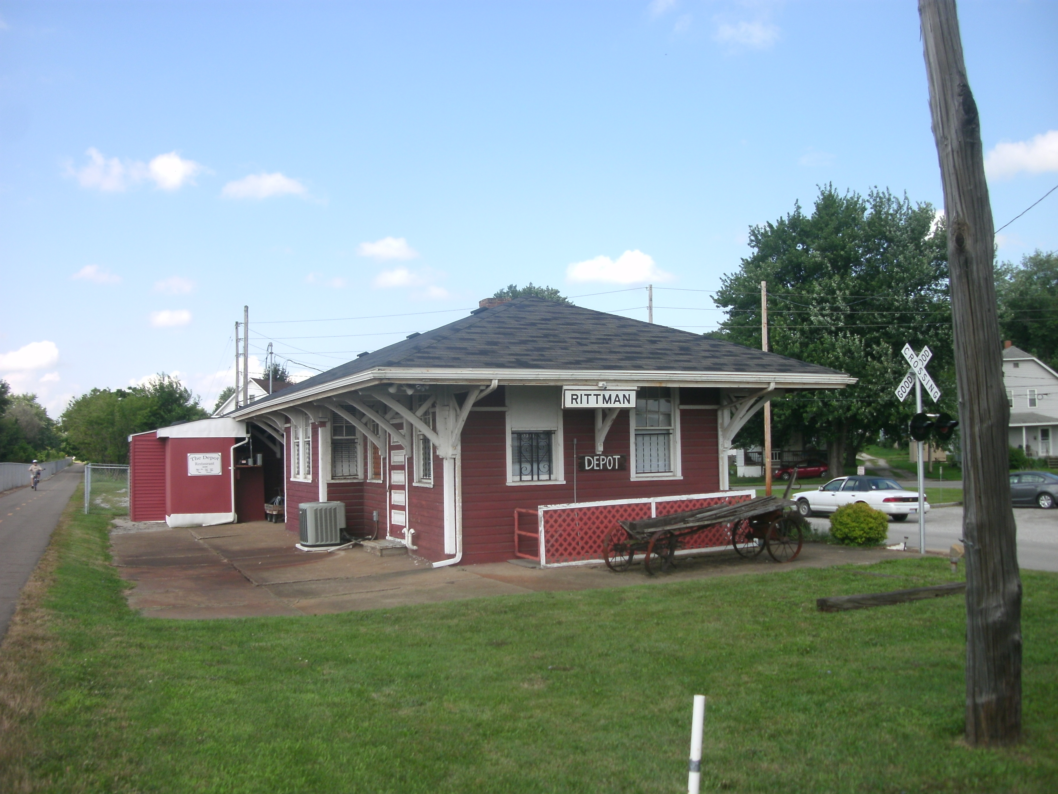 The former Erie Railroad depot in the city of Rittman, Ohio